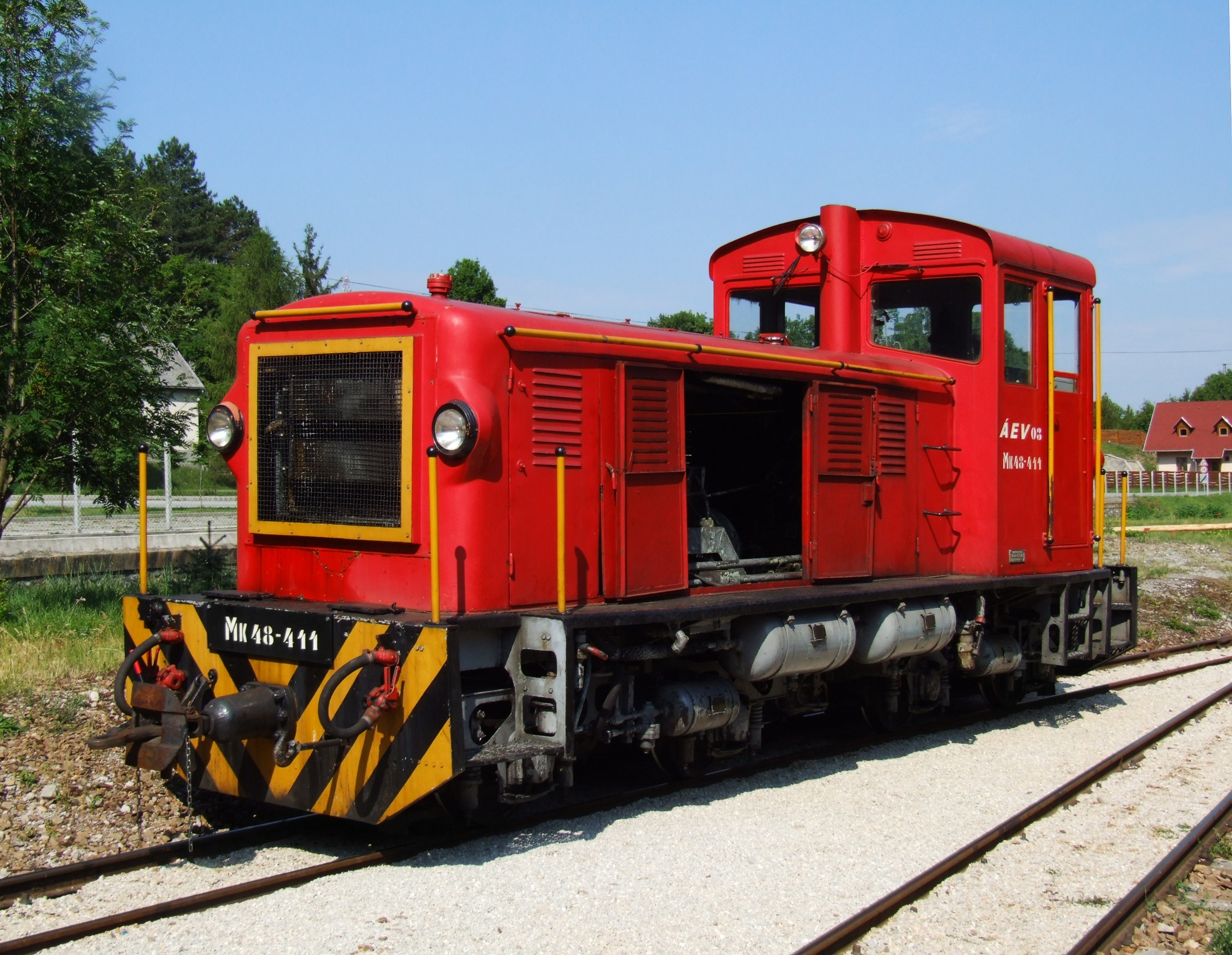 Szilvásvárad Forestry Railway - locomotive Mk48